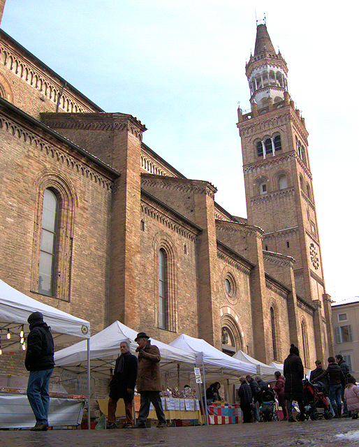 Side of the Cathedral of Crema